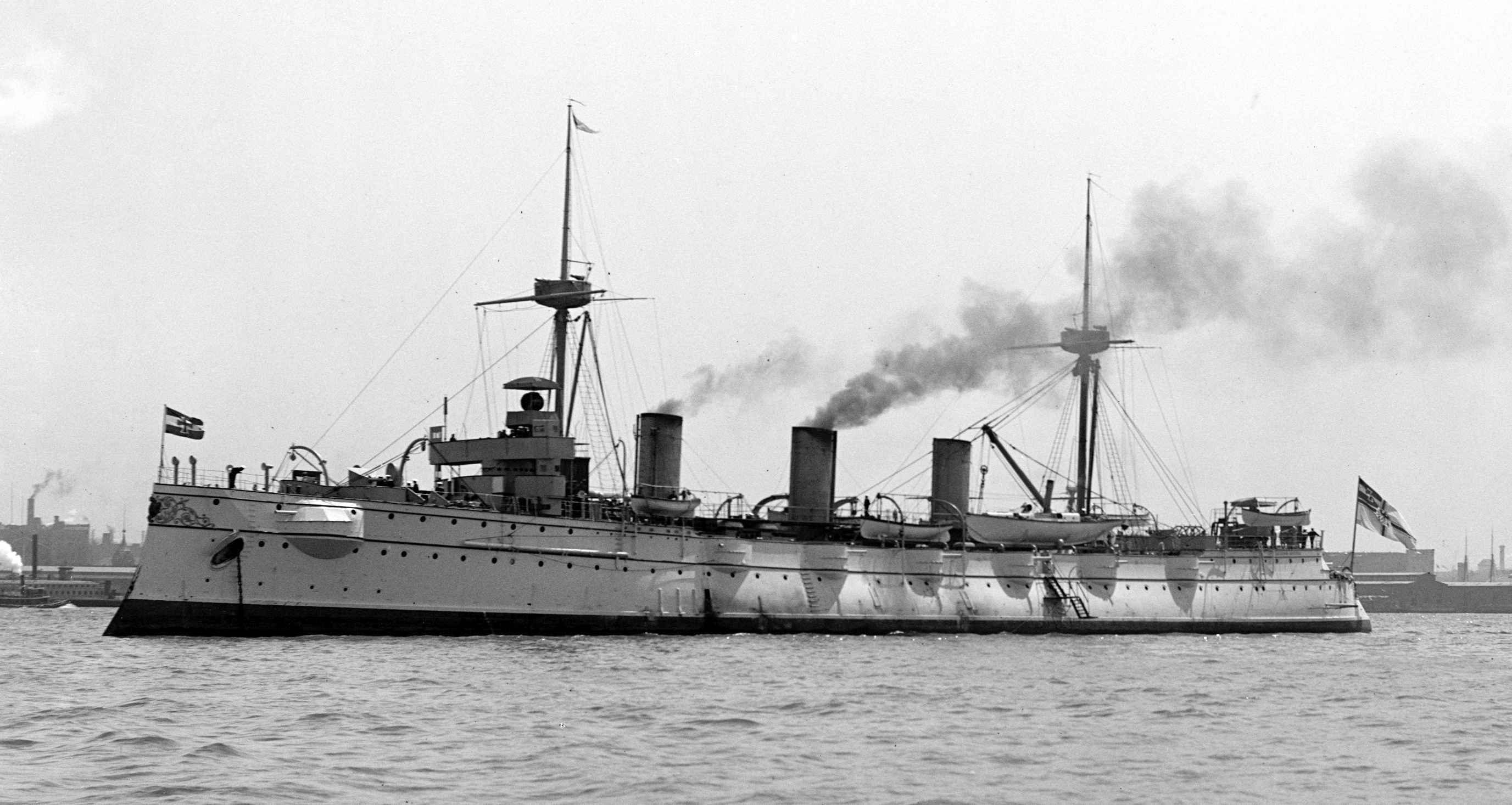 The Imperial German Navy cruiser SMS Kaiserin Augusta in New York (USA) in 1893. The ship arrived on 26 April. Original image cropped to focus on ship.